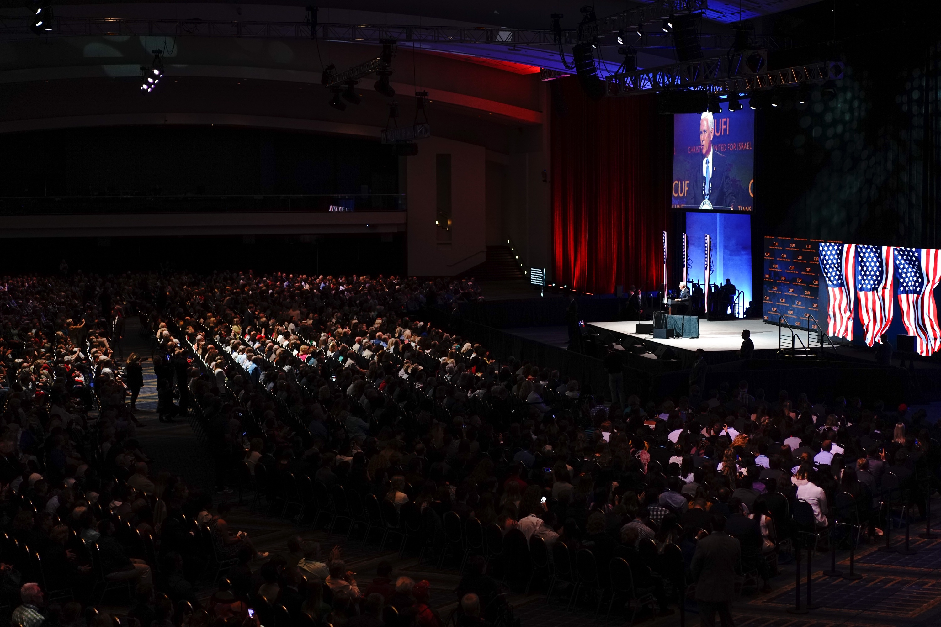 Vice President Mike Pence delivers remarks at the Christians United for Israel Washington Summit in Washington, D.C. Monday, July 8, 2019. (Official White House Photo by D. Myles Cullen)